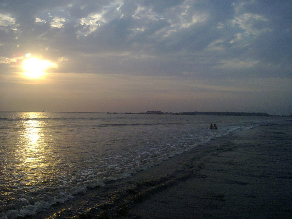 wonderful sunset at arnala